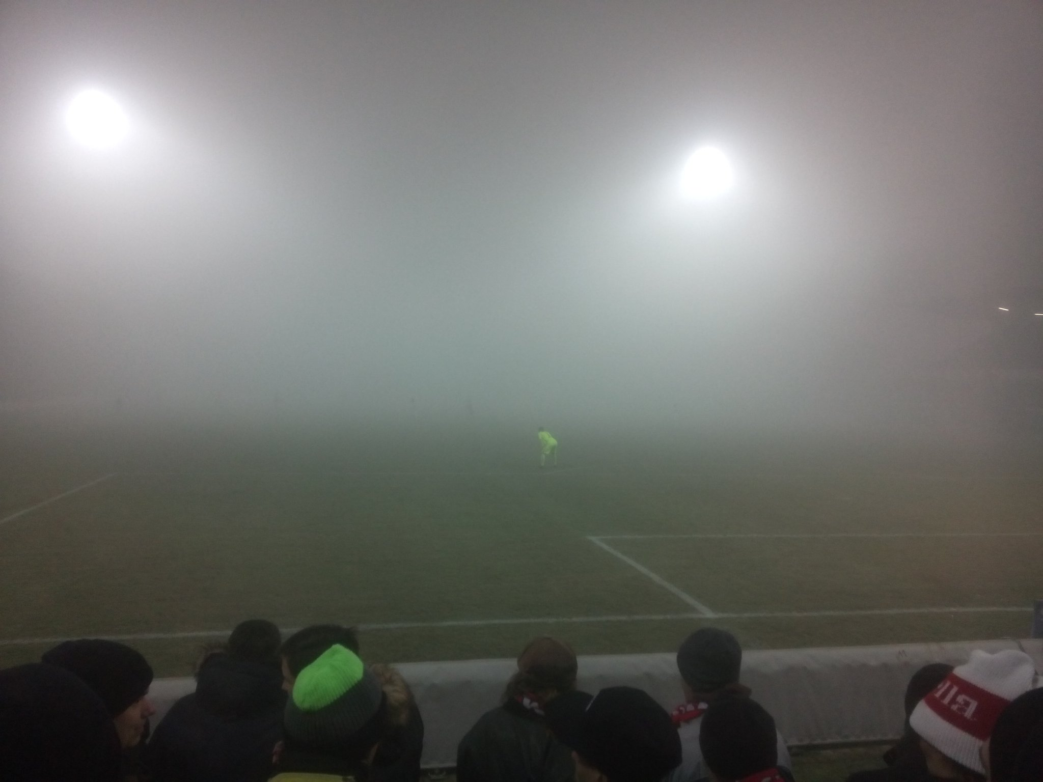 View out of the "Bierkurve" in the second half of the „fog derby“ of Winterthur against the FC Zurich.